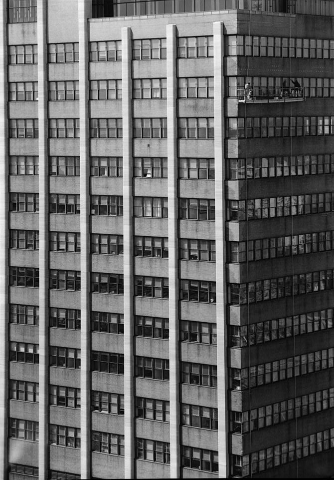 Facade of the PSFS Building (Loews Philadelphia Hotel). From the roof of the Reading Terminal. Cropped from original.